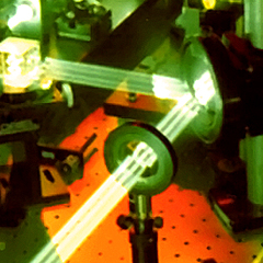 Multiple lasers reflecting from a mirror.